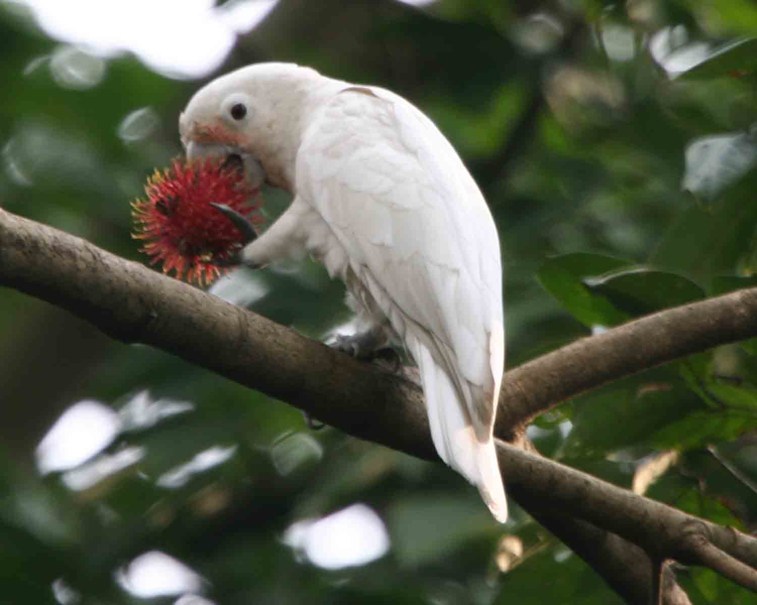 Goffin's Cockatoo (Cacatua goffiniana) also known as Tanimbar cackatoo, Goffin's Cockatoo, Tanimbar Corella. Central catchment area, Singapore. Malay: Kakatua Tanimbar The pink colour on the lores is an identifying feature, not a reflection of the fruit. This bird is probably descended from escapees. Normally found in Tanimbar Island, Indonesia Its status is NEAR THREATENED The fruit it is eating is a tropical fruit commonly found in South East Asia, and likely in its home island.